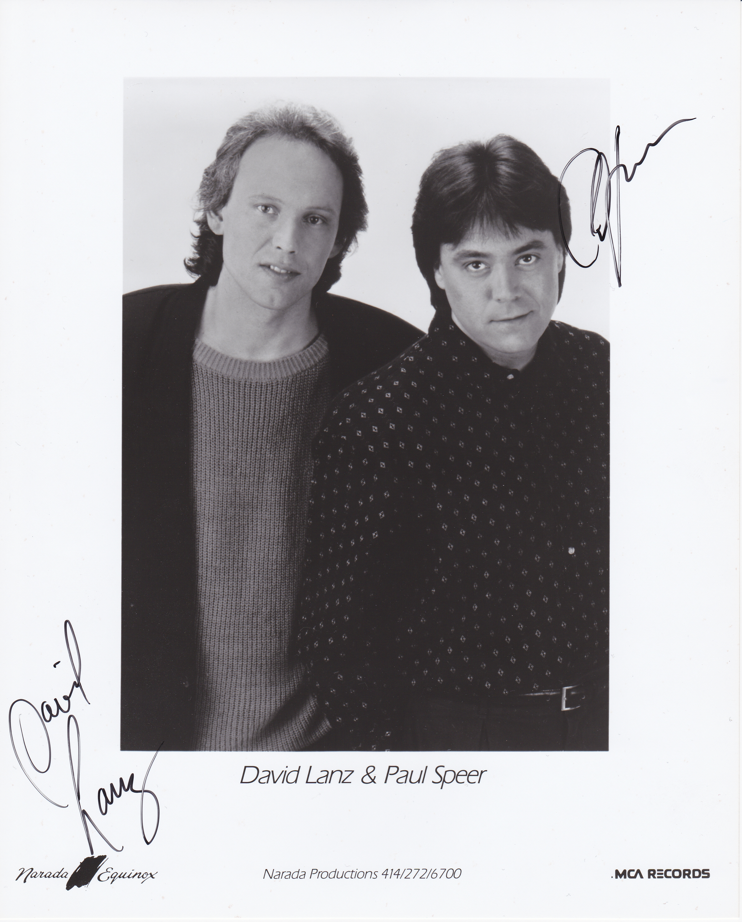 Publicity Photo